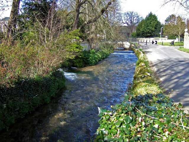 The River Wey at Upwey The source of this stream is in the village, where a cafe and wishing well mark the spot (much frequented by tourists in season). The stream flows south and empties into the Radipole Lake at Weymouth.